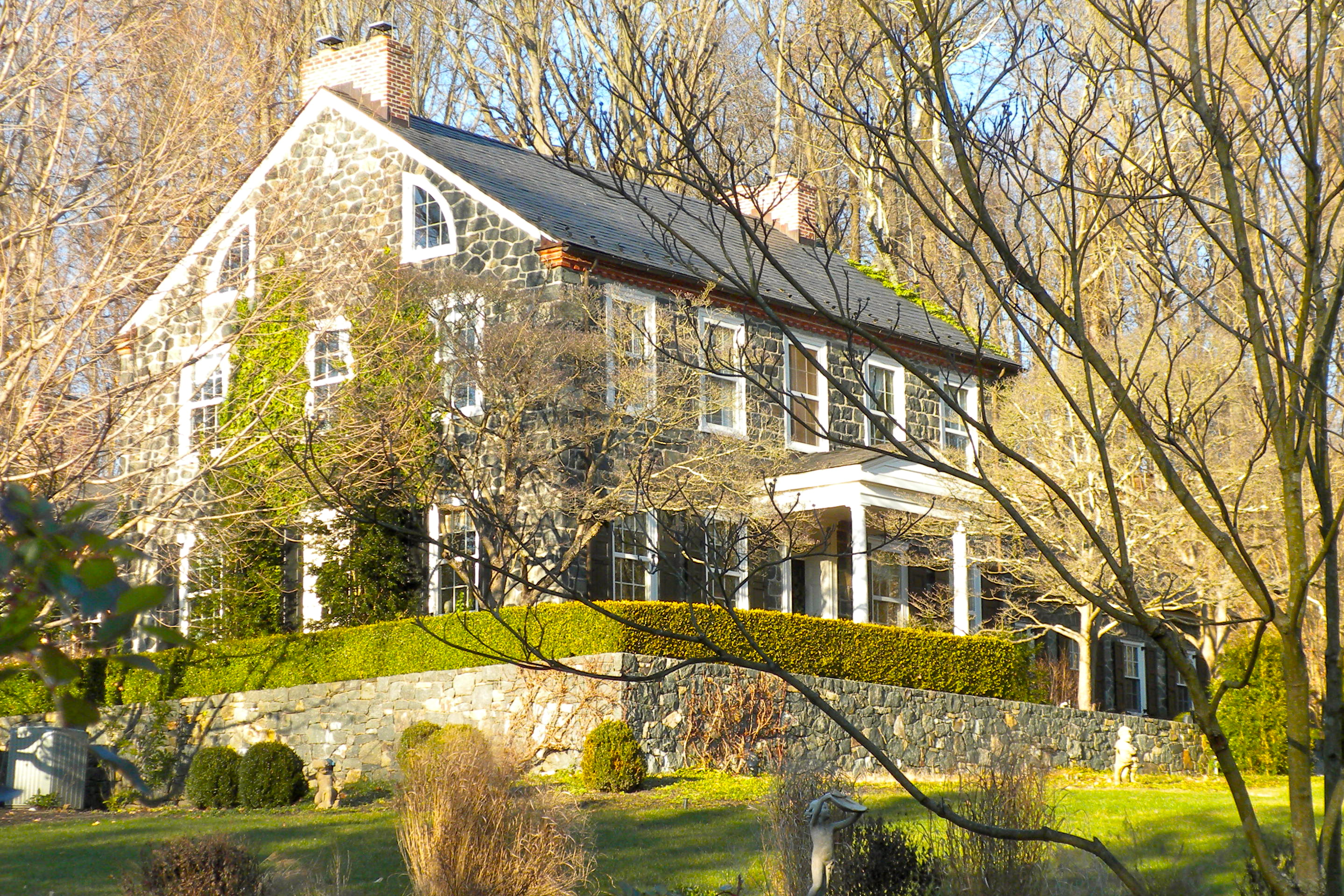 Edward Brinton House in Chester County PA. On Creek Rd. near Chadds Ford, PA. On NRHP. I donate this to the public domain.